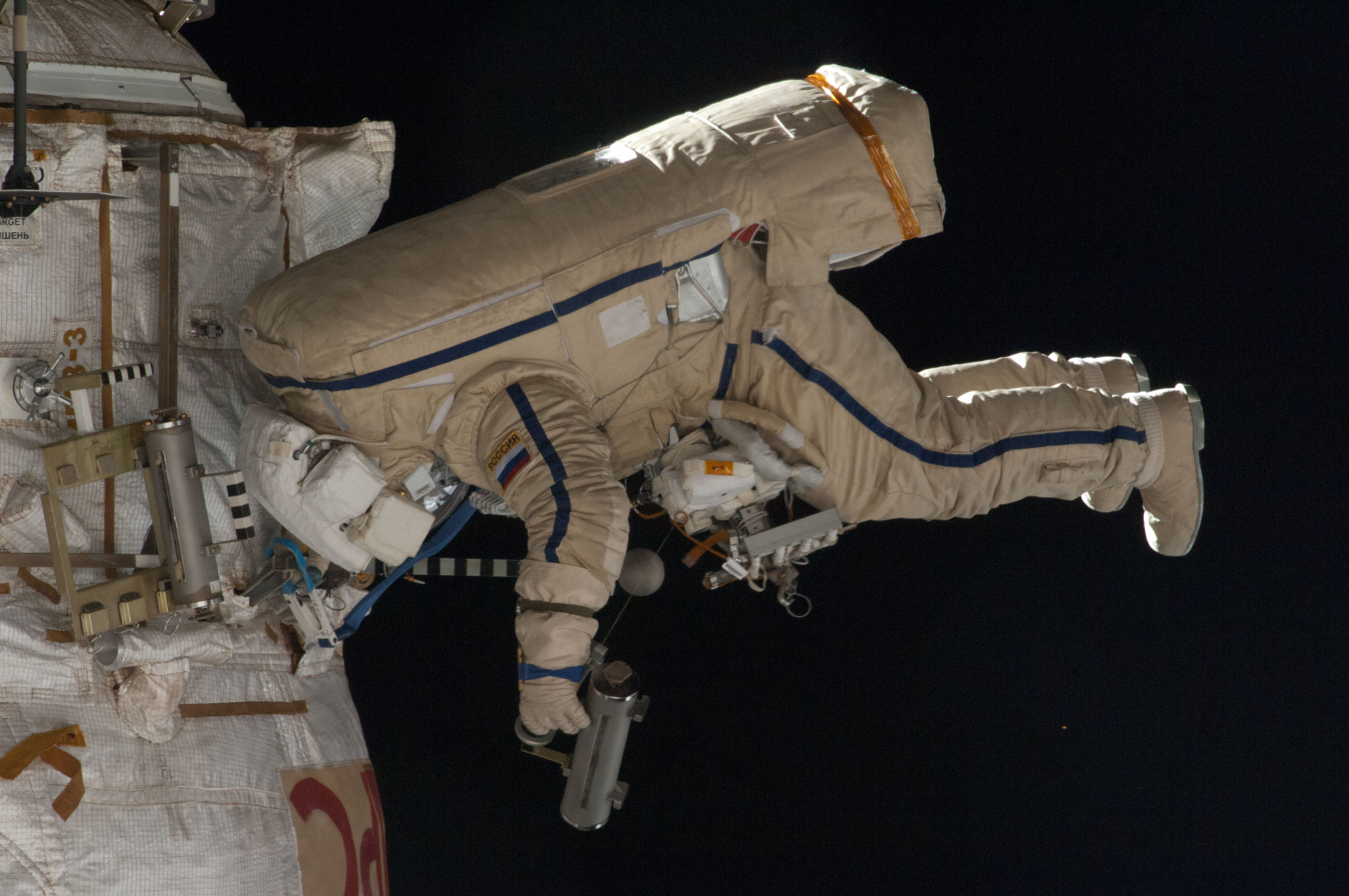 Expedition 35 Russian cosmonaut Roman Romanenko translates outside the International Space Station on April 19, 2013, during the first spacewalk of the Expedition 35 mission. Romanenko and Pavel Vinogradov (out of frame) went on to spend about six hours upgrading the station's exterior hardware.